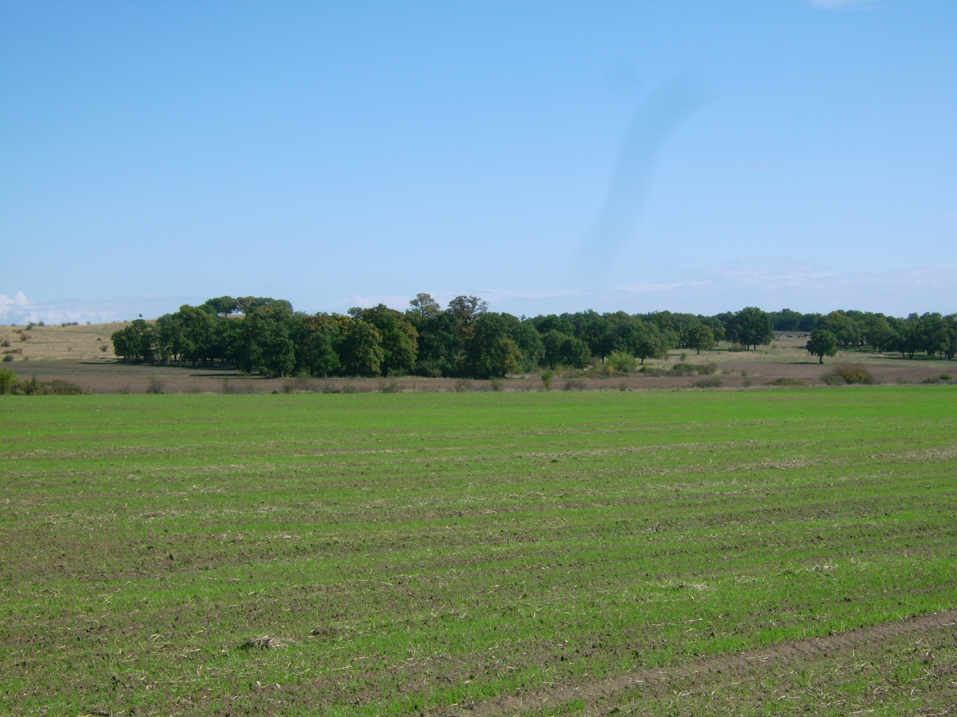 Kostadin`s Oakforest